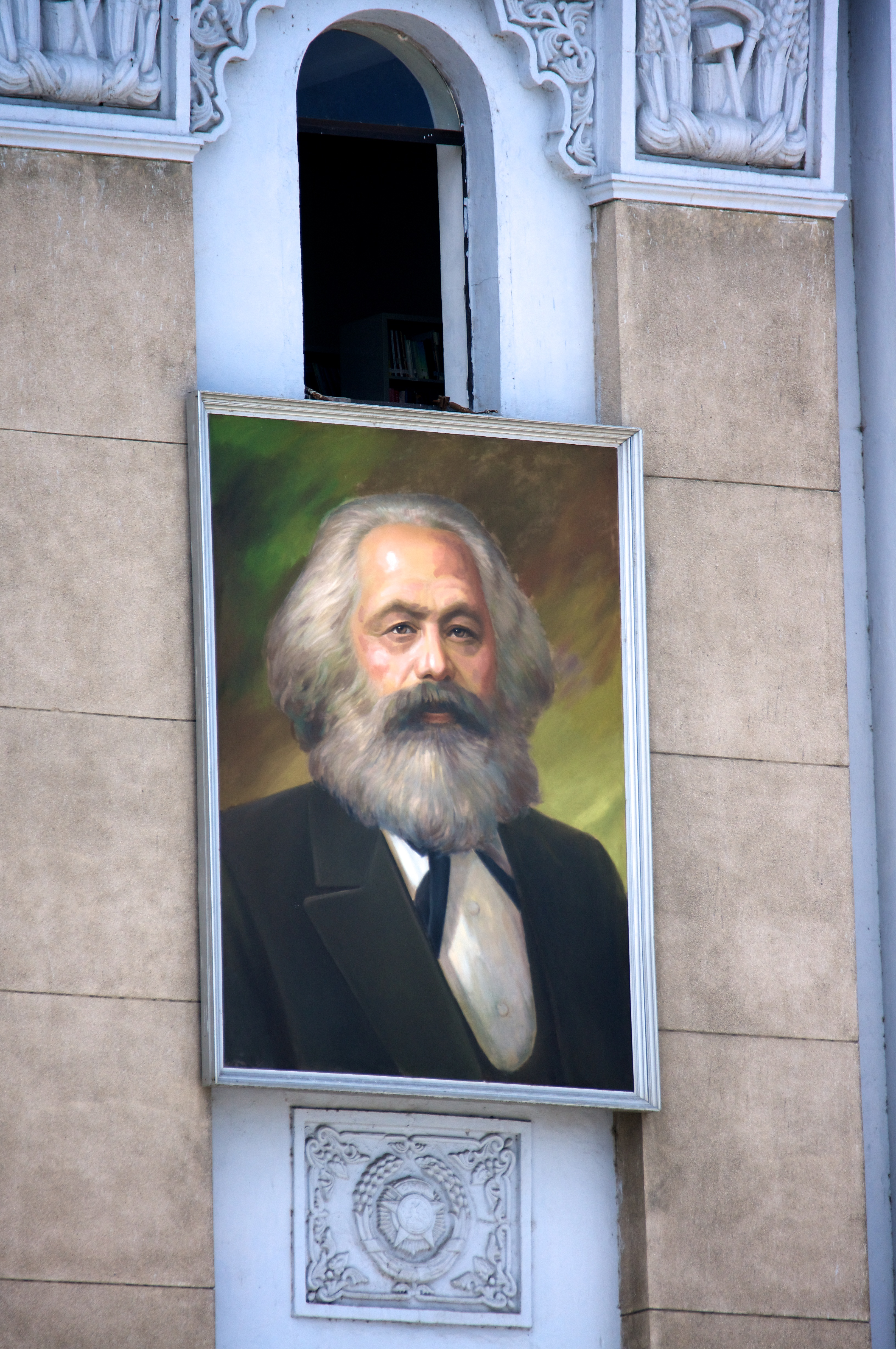 Karl Marx at the Ministry of Foreign Trade, Pyongyang, DPRK, North Korea